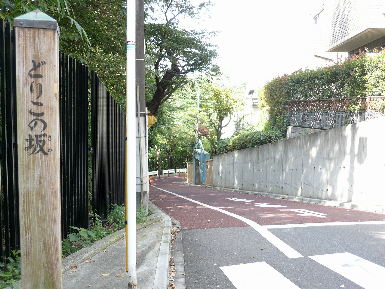 Dorikono Slope at Den-en-chōfu, Ōta-ku, Tokyo, Japan